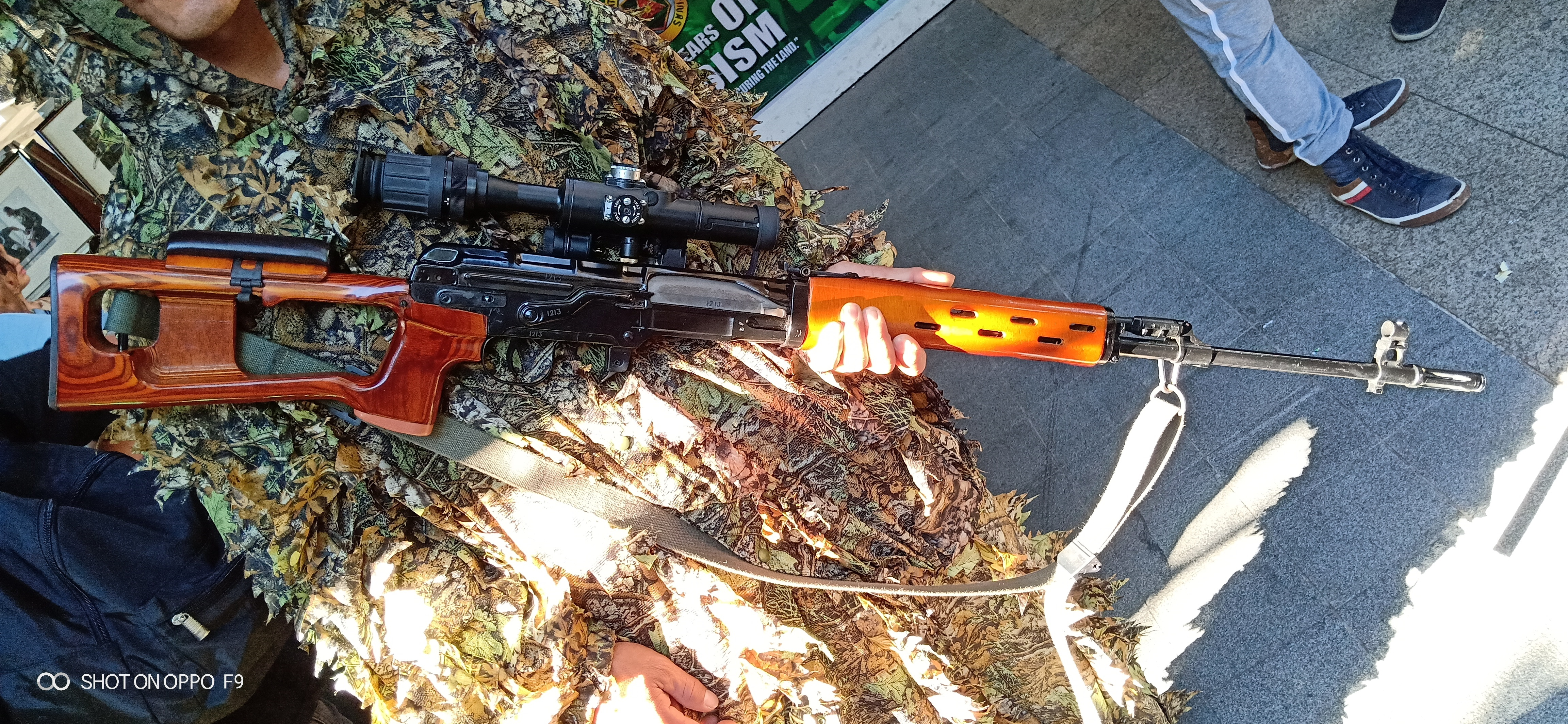 A Type 85 Sniper Rifle that China donated to the Philippine Army (PA). Photo taken during the Philippine Army 2019 Info Caravan at the Bonifacio Global City.